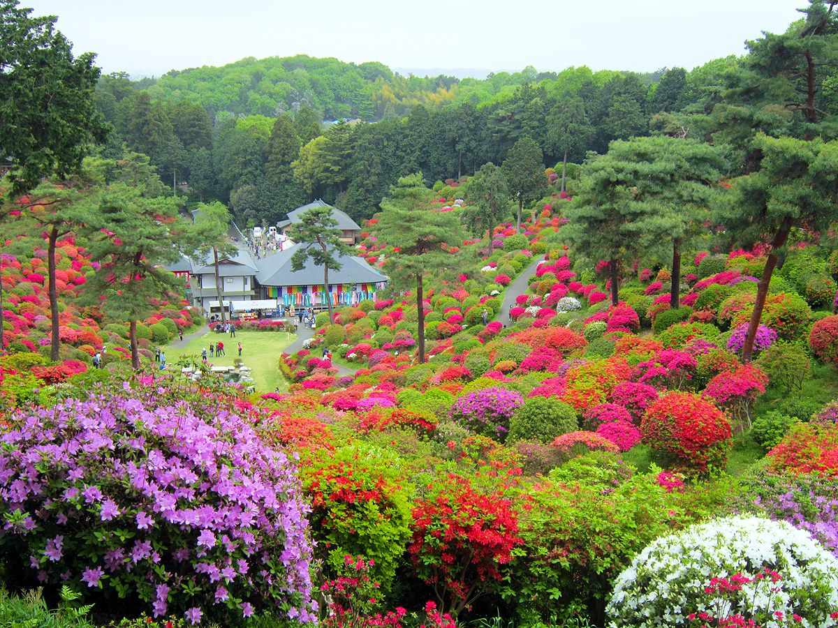 塩船観音寺のツツジ (Azalea Festival in Ome) 03 May, 2011